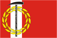 Kopeysk (Chelyabinsk oblast), flag